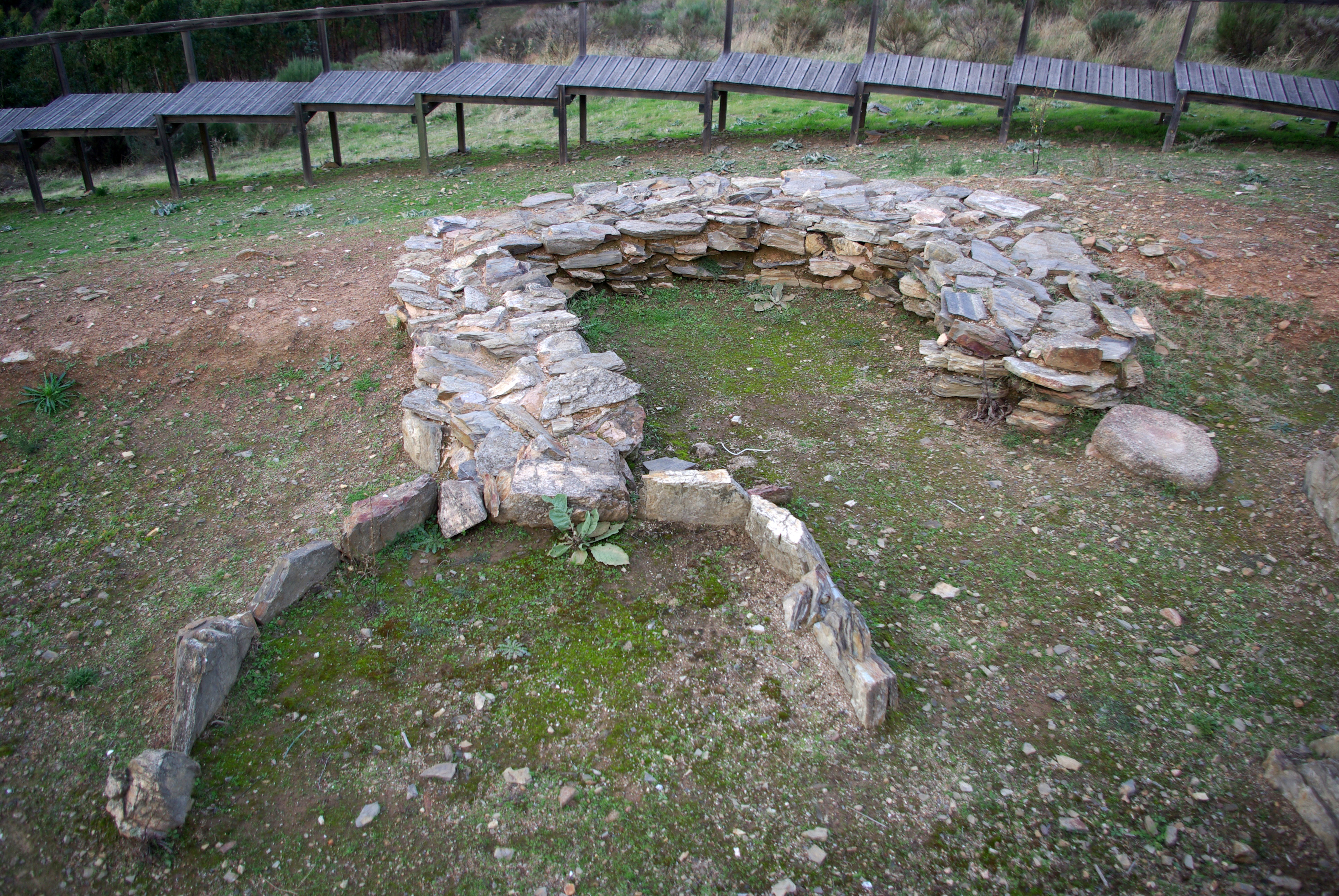 Hill fort of Castelo Velho in Freixo de Numão (Guarda, Portugal).